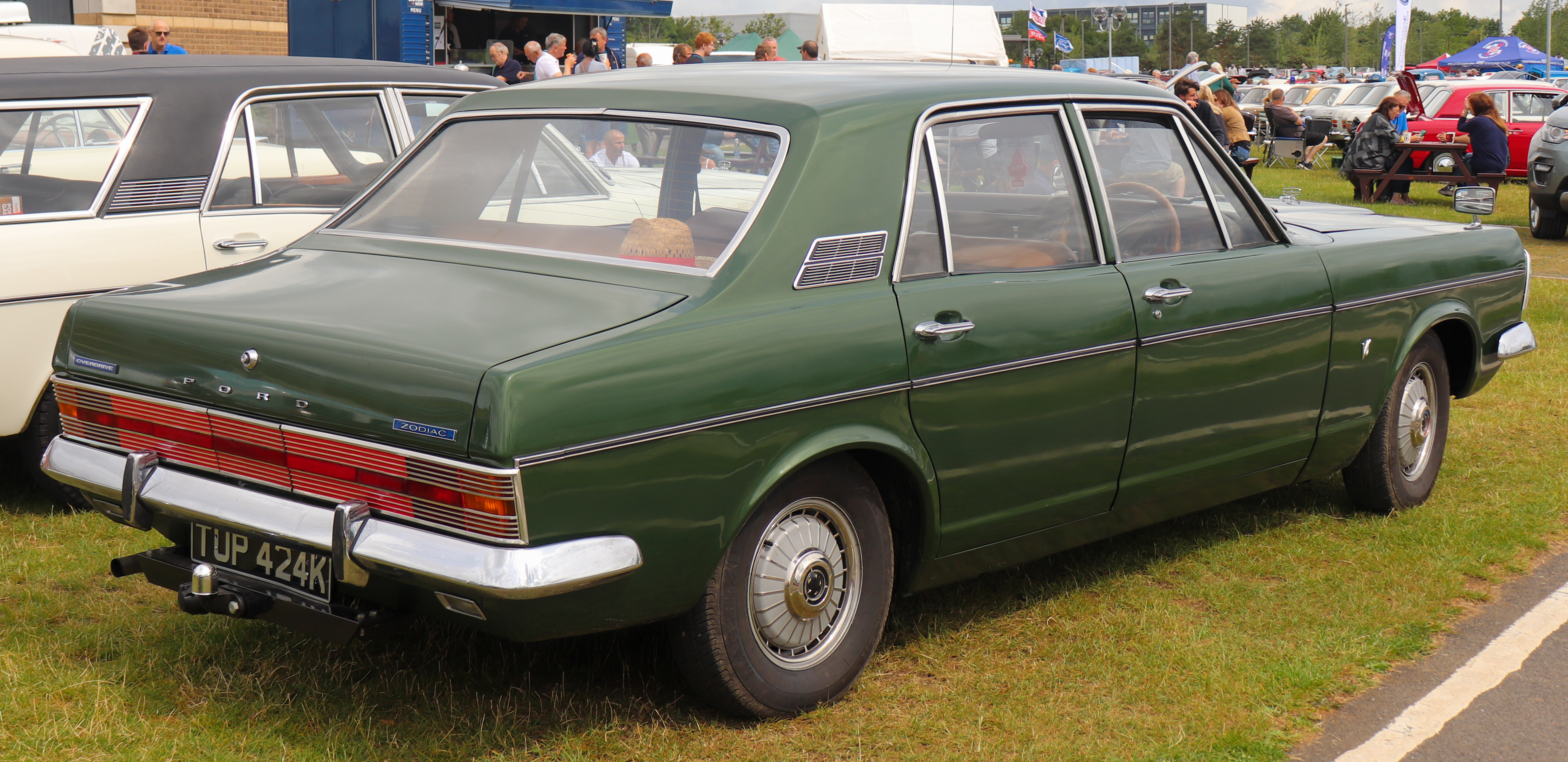 1972 Ford Zodiac Mark IV 3.0 Rear Taken at the British Motor Museum Old Ford Rally 2019, Gaydon